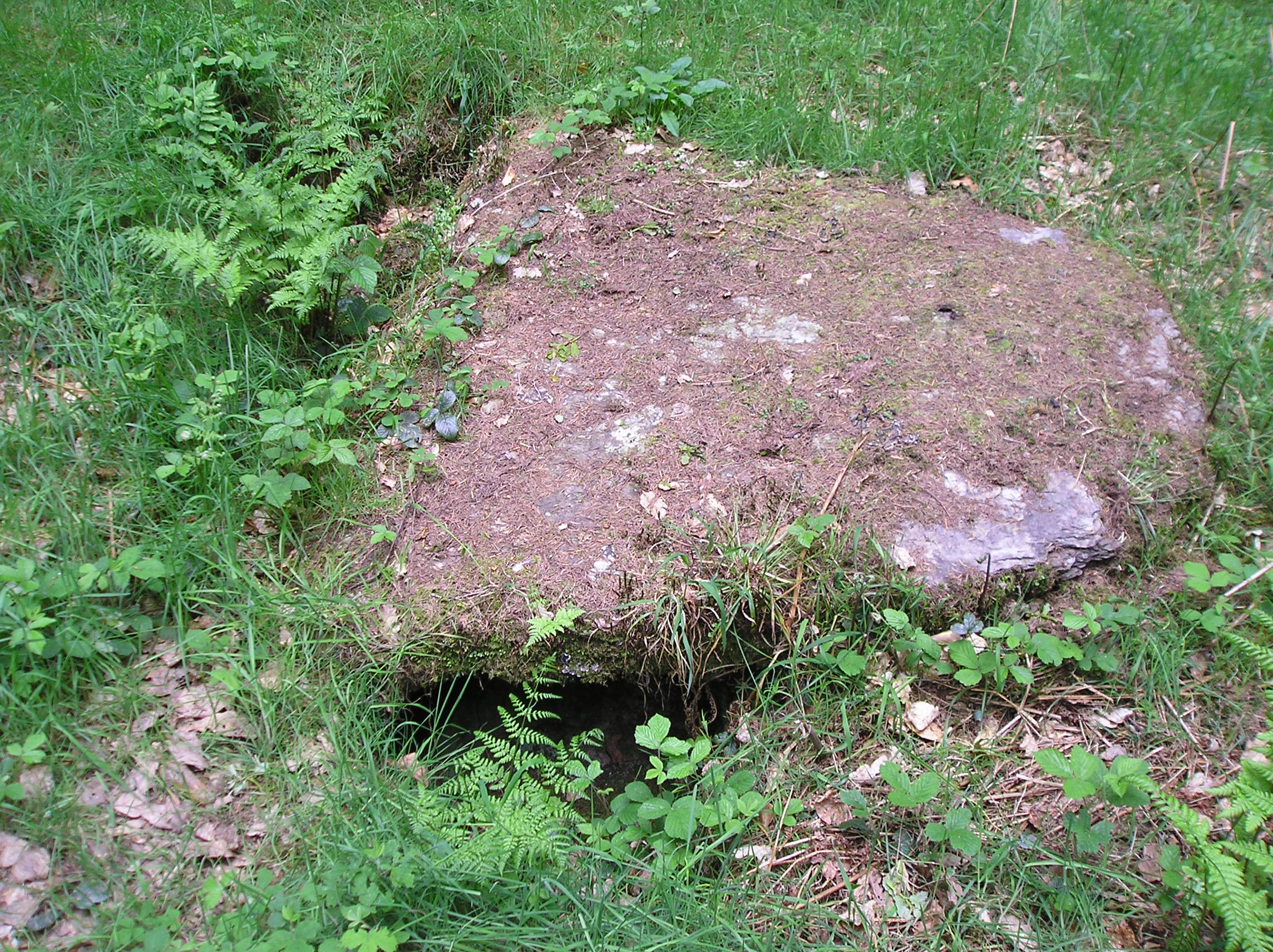 Cist, Langridge Wood